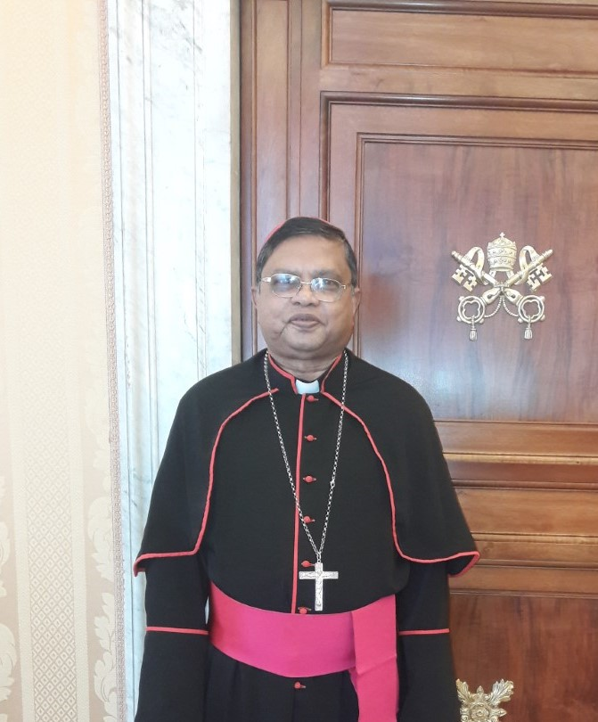 Picture of Bishop James Romen Boiragi